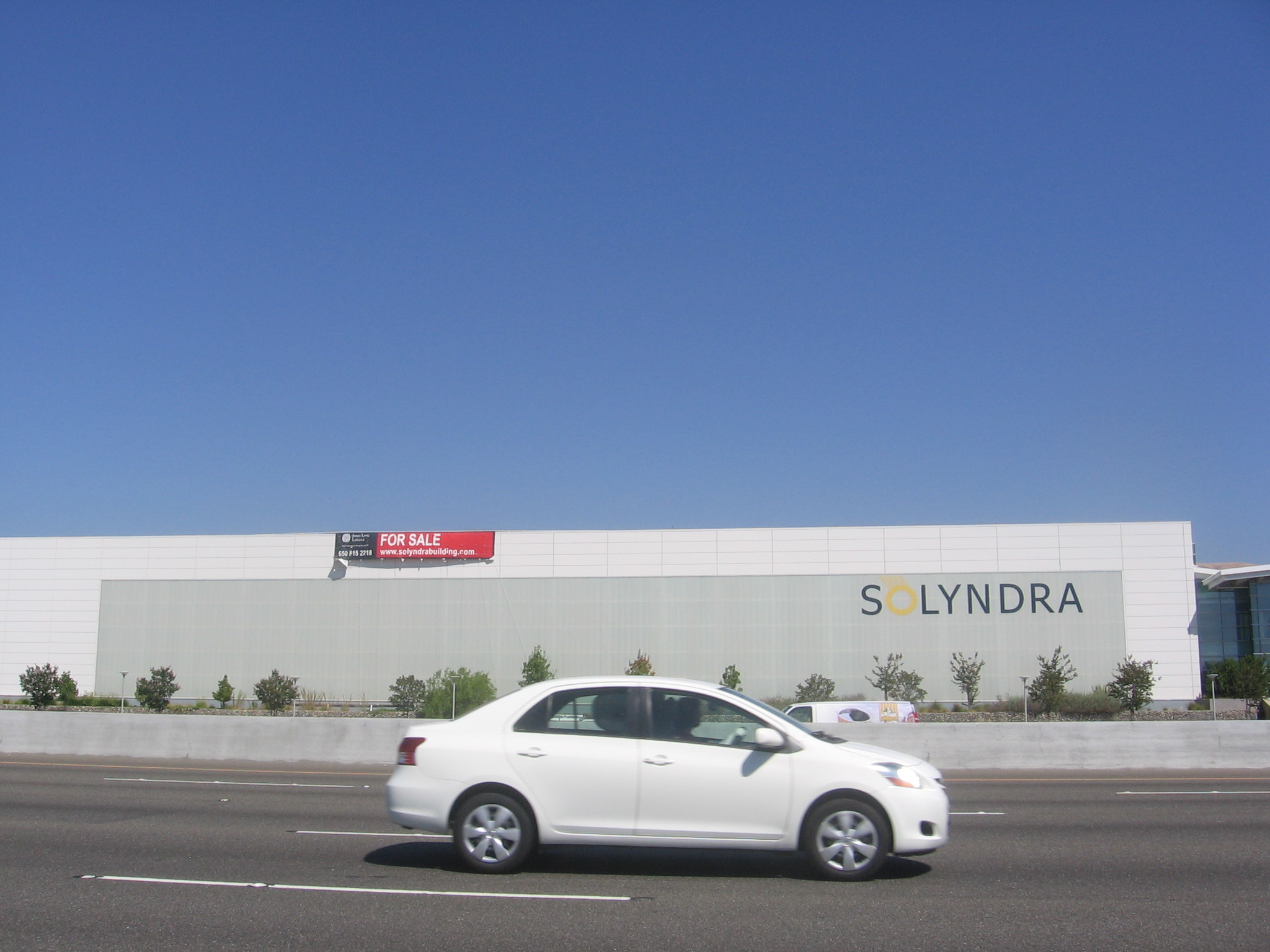 A large factory building owned by Solyndra in Fremont, California, USA with a "For Sale" sign on it. View is from the shoulder of the southbound side of Interstate 880 (Nimitz Freeway).